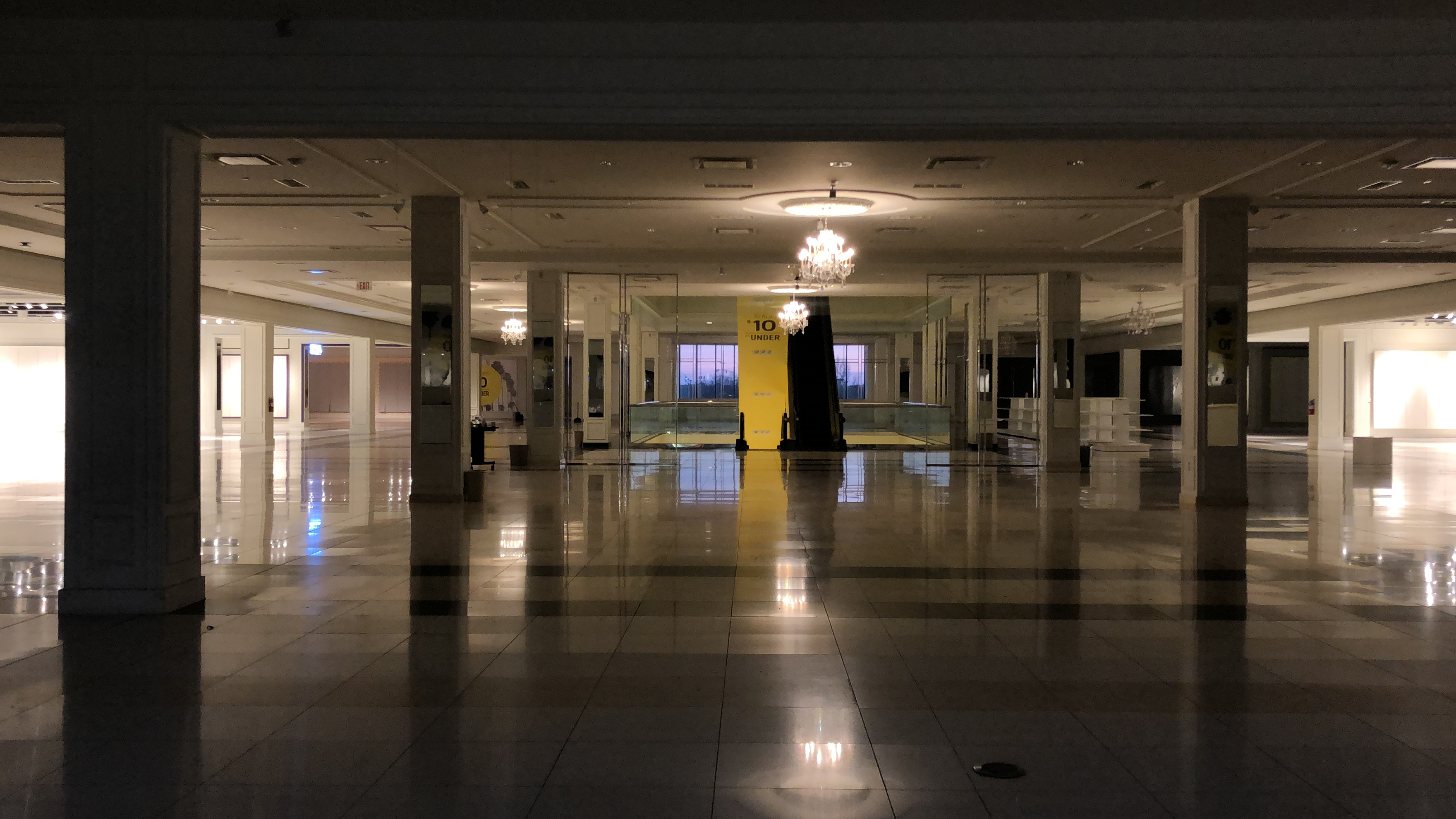 Image of the shut down Forever 21 at the Vintage Fair Mall in Modesto, California.